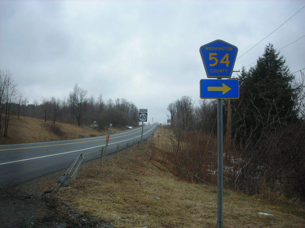 New York State Route 40 southbound at the junction with Washington County Route 54 in Crandall Corners, New York.